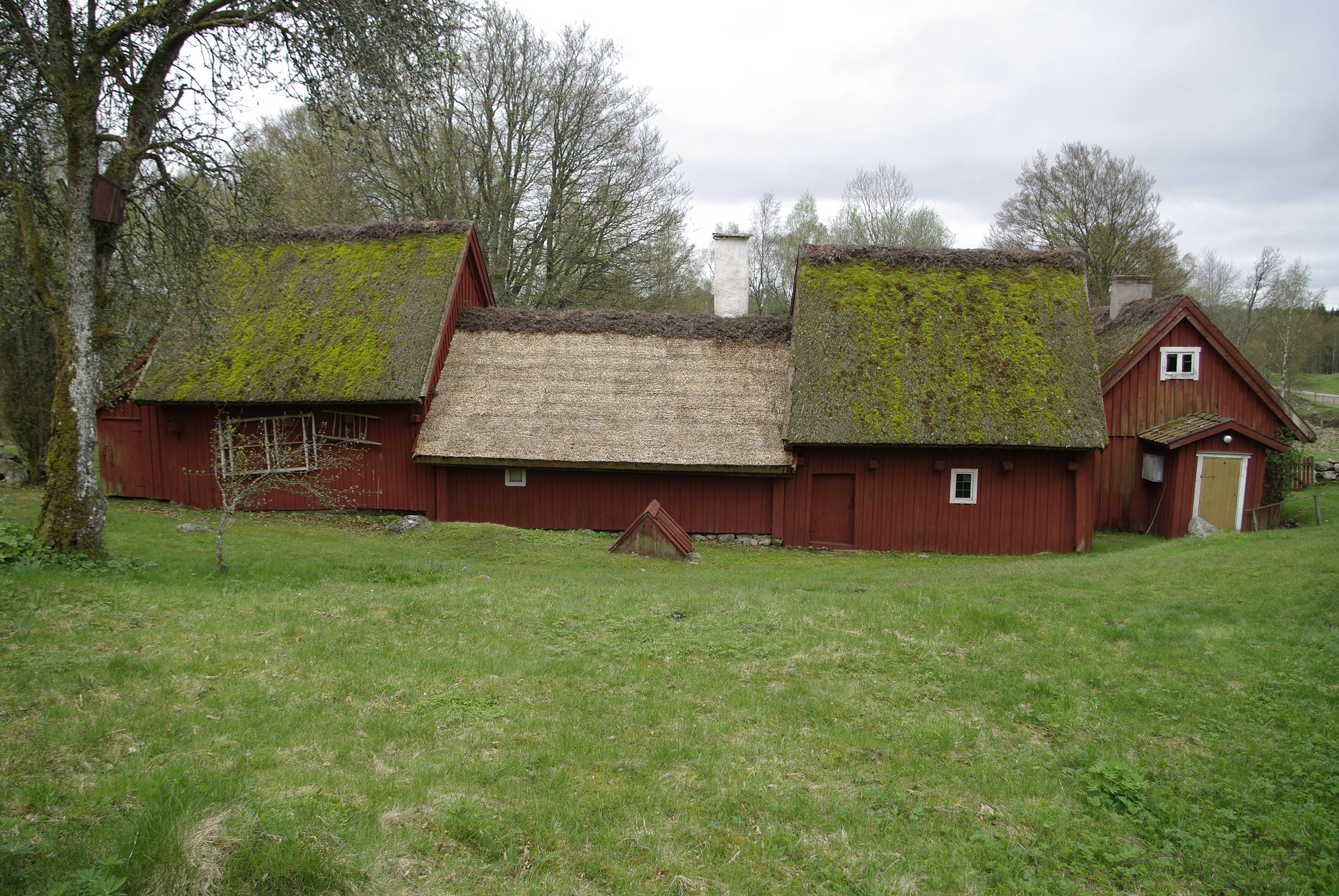 Old farm building in the province of Halland in western Sweden.